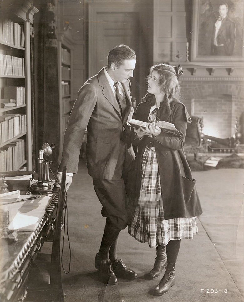 Publicity shot for 1919 film The Test of Honor, public domain (slightly digitally damaged)